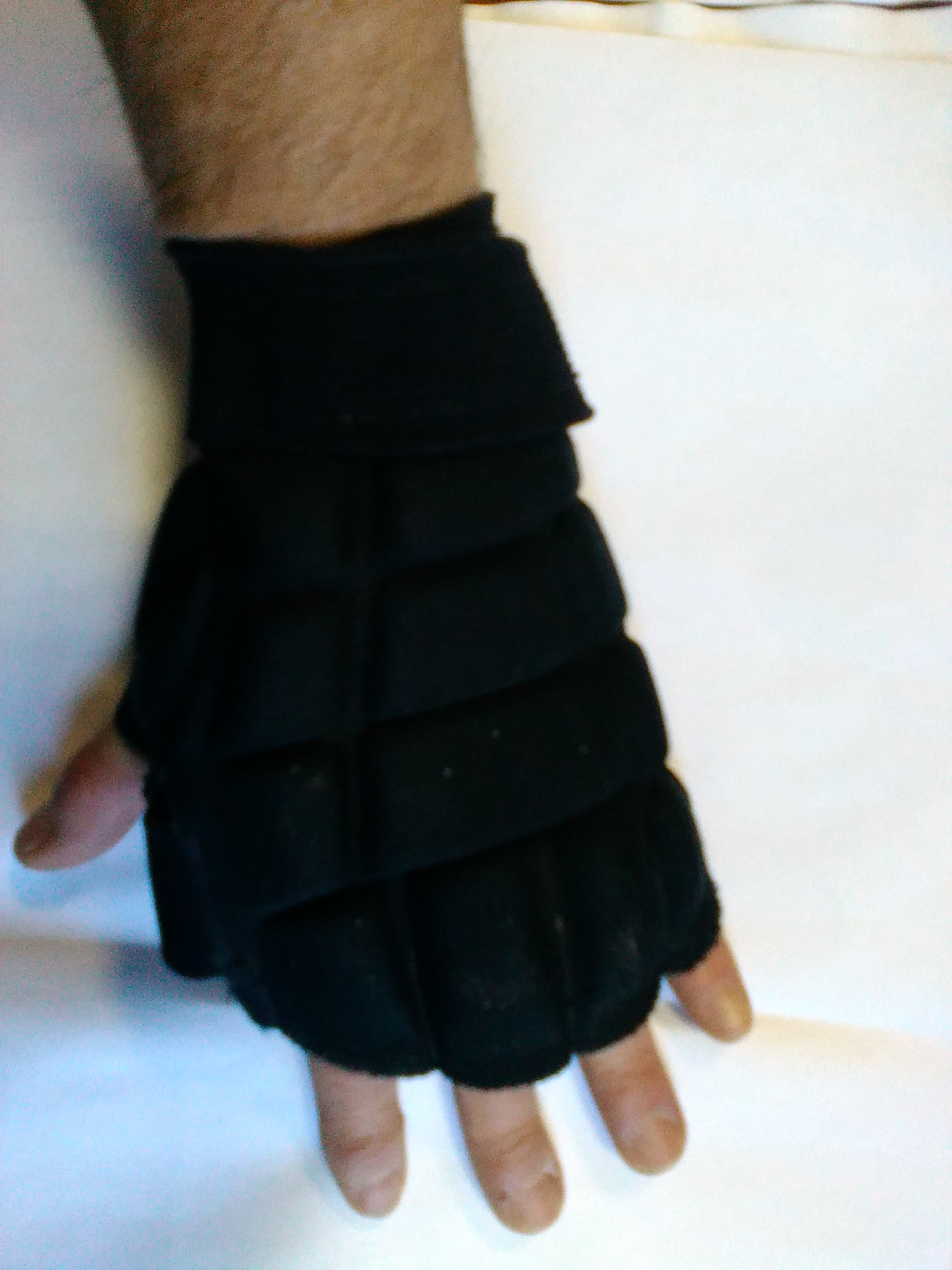 The front of a football glove